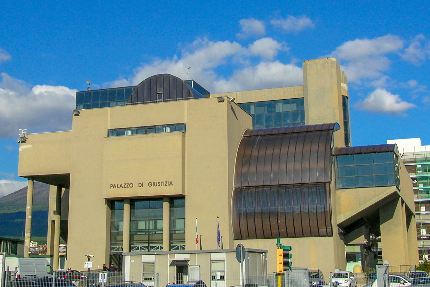 Palace of Justice of Torre Annunziata